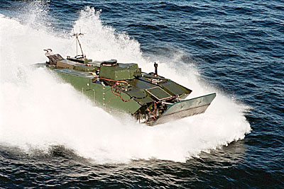 Advanced Amphibious Assault Vehicle, United States Marine Corps